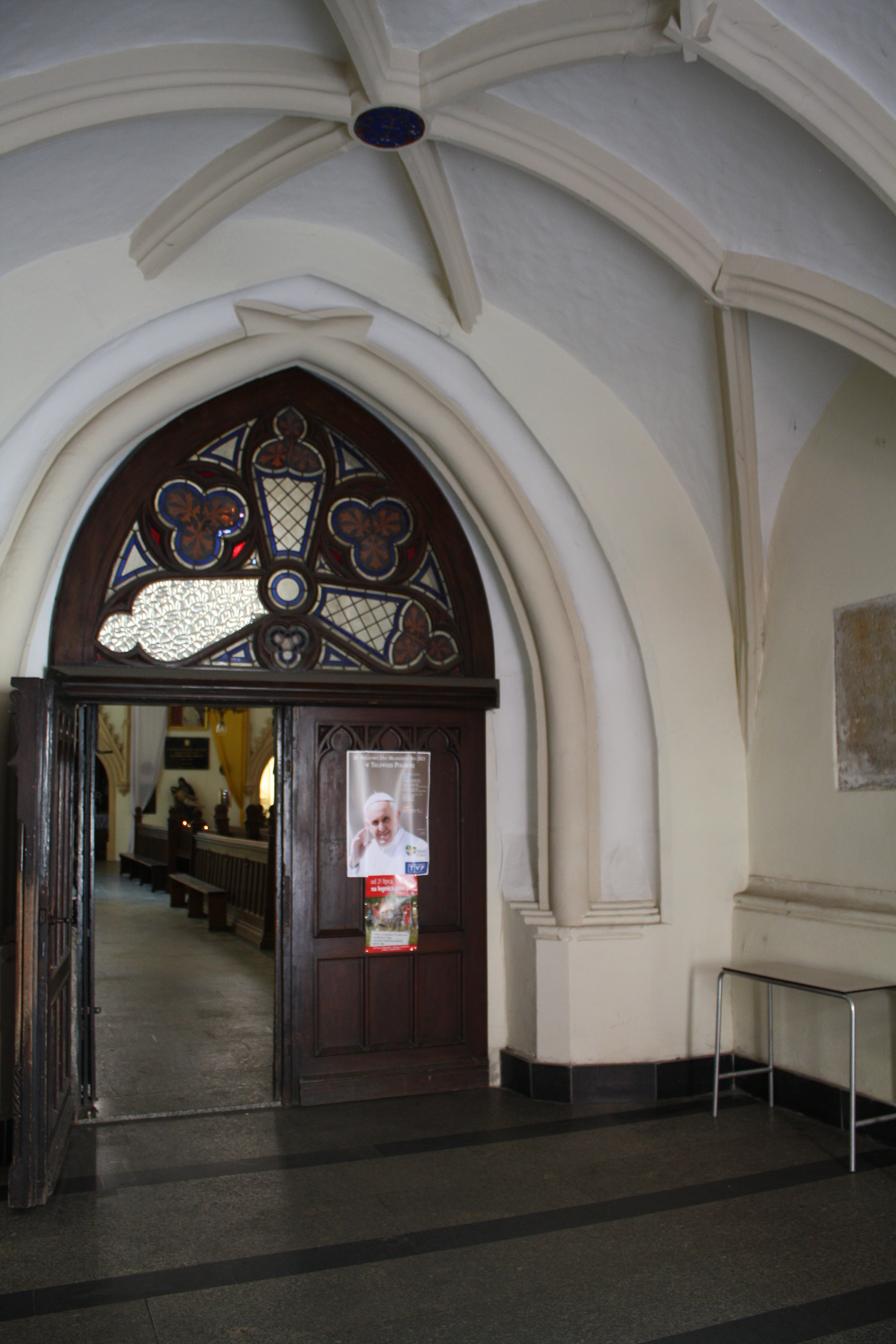 This photo of Lower Silesian Voivodeship was taken during Wikiexpedition 2013 set up by Wikimedia Polska Association.You can see all photographs in category Wikiekspedycja 2013.